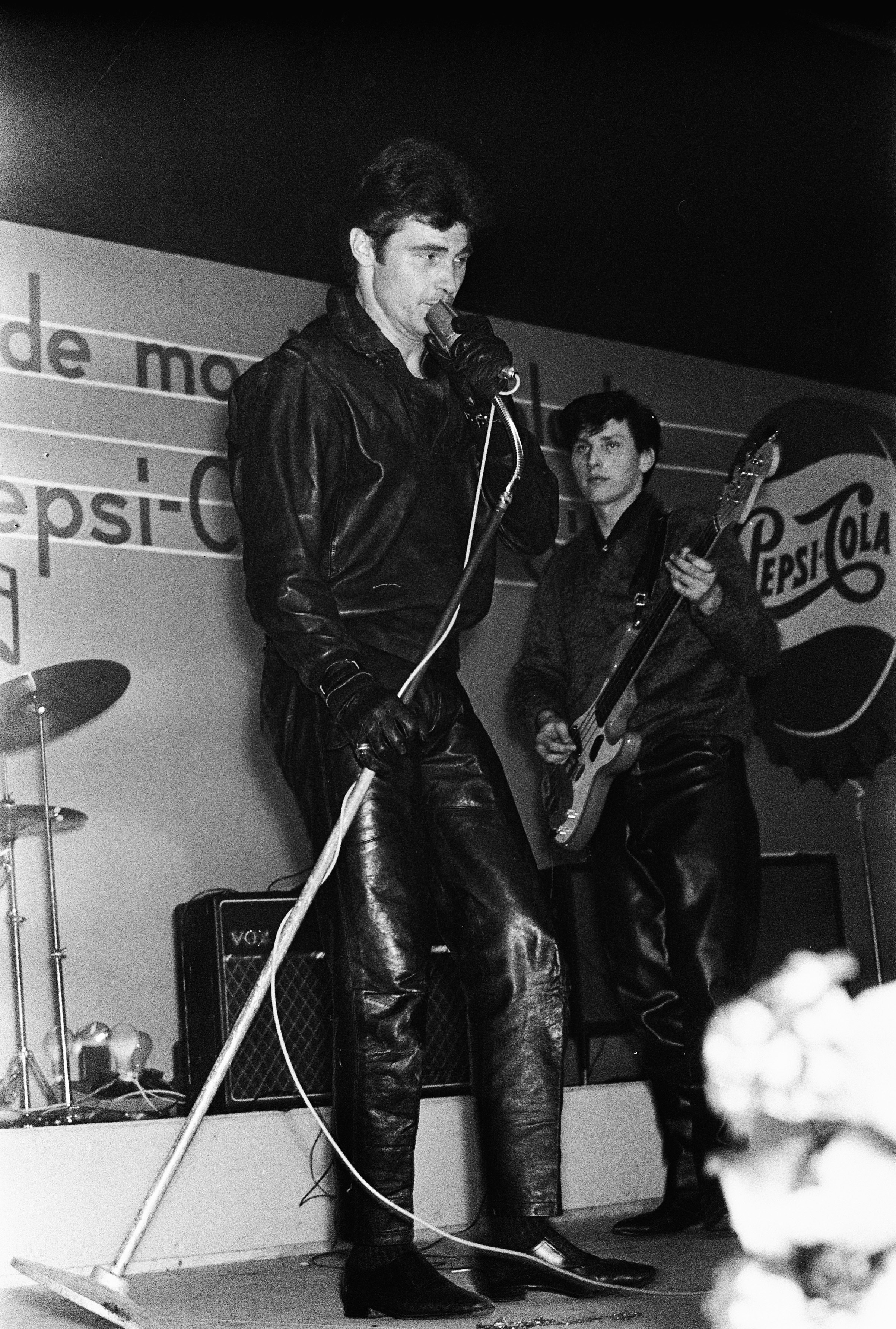 Vince Taylor performing in Blokker (the Netherlands), 23 May 1963. Right: possibly bass player Douggie Reece or Johnny Vance (=David John Cobb)?